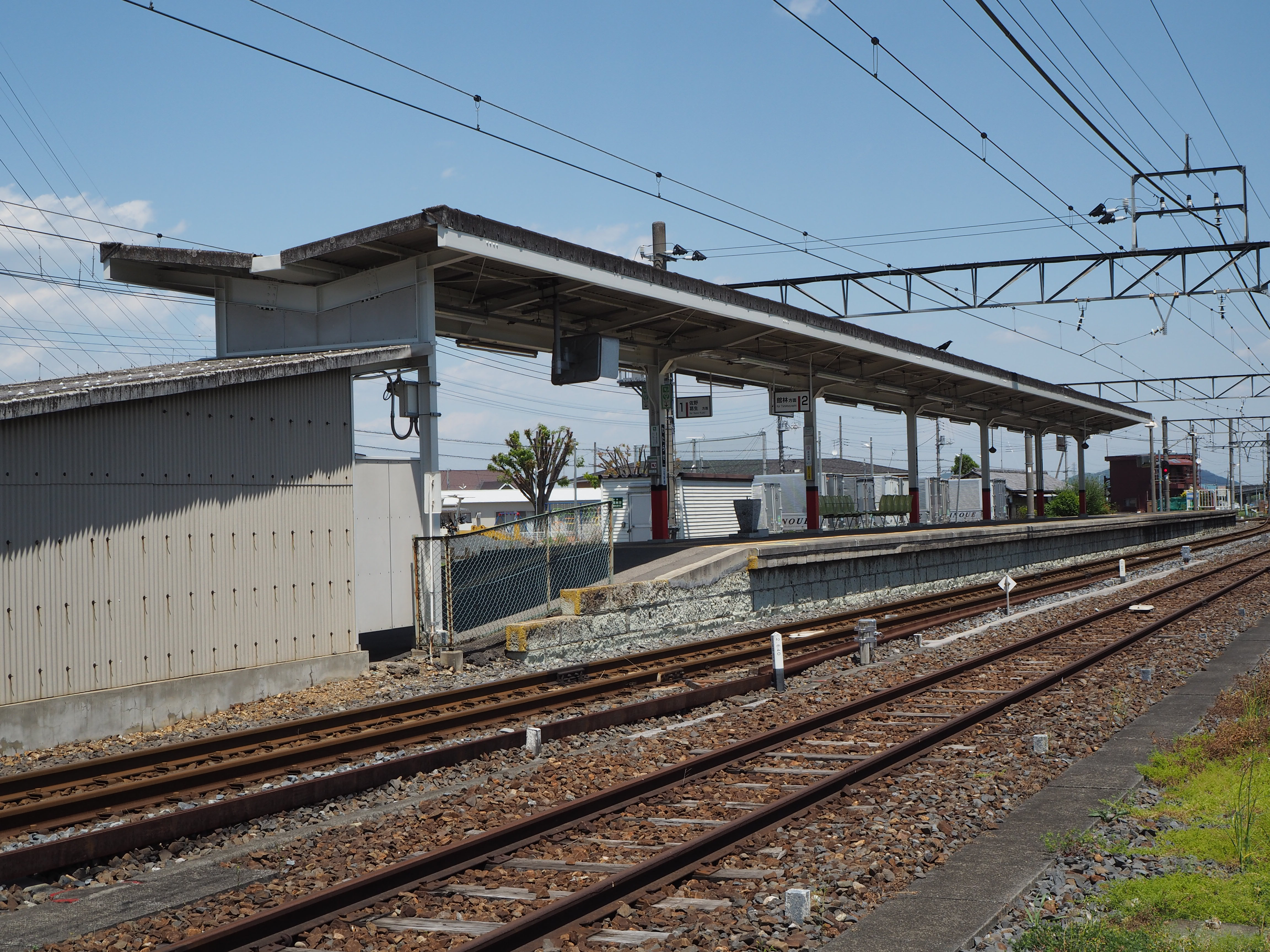 Platform of Watarase Station